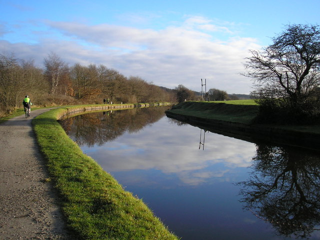 Leeds-Liverpool Canal This stretch is popular with Sunday afternoon walkers and cyclists.